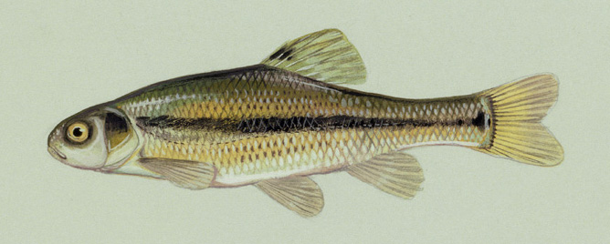 Illustration of Pimephales promelas, the fathead minnow